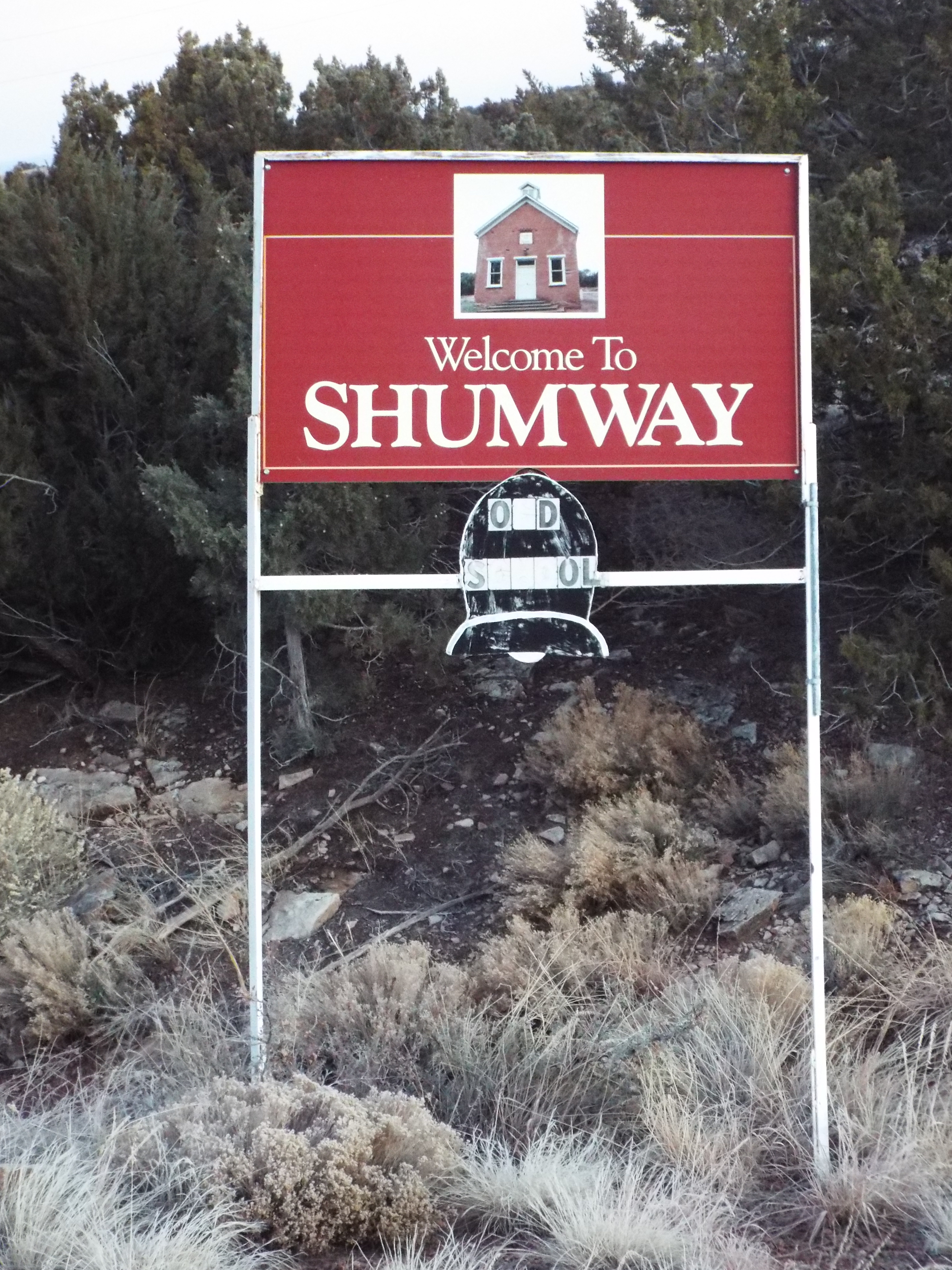 Welcome to Schumway, Arizona